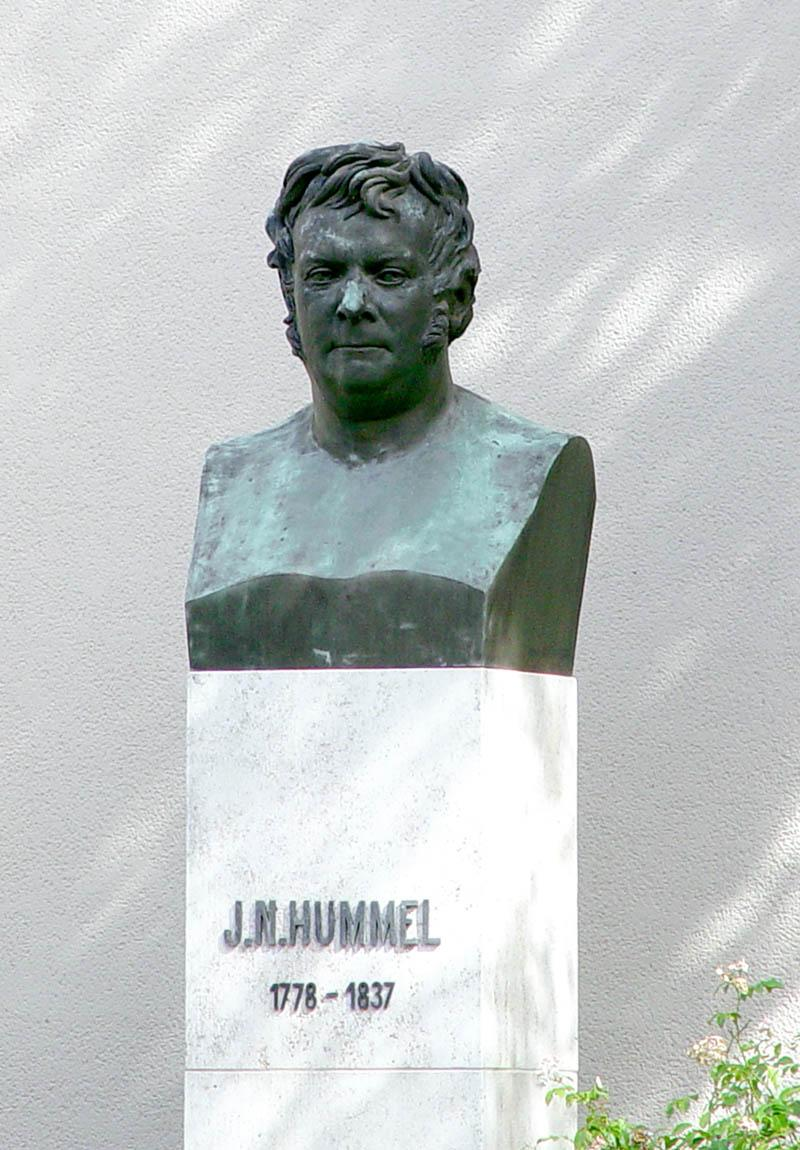 Johann Nepouk Hummel, bust behind the Deutsches Nationaltheater, Weimar, Germany. Bust inaugurated August 15, 1895; by Franz Xaver Pönninger [1]